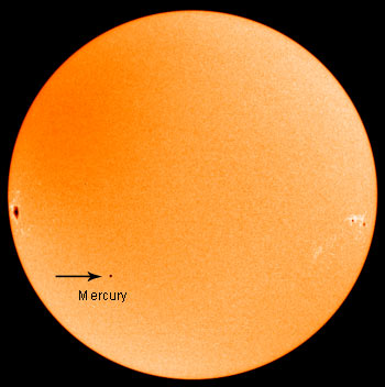 Transit of Mercury, 2006-11-08